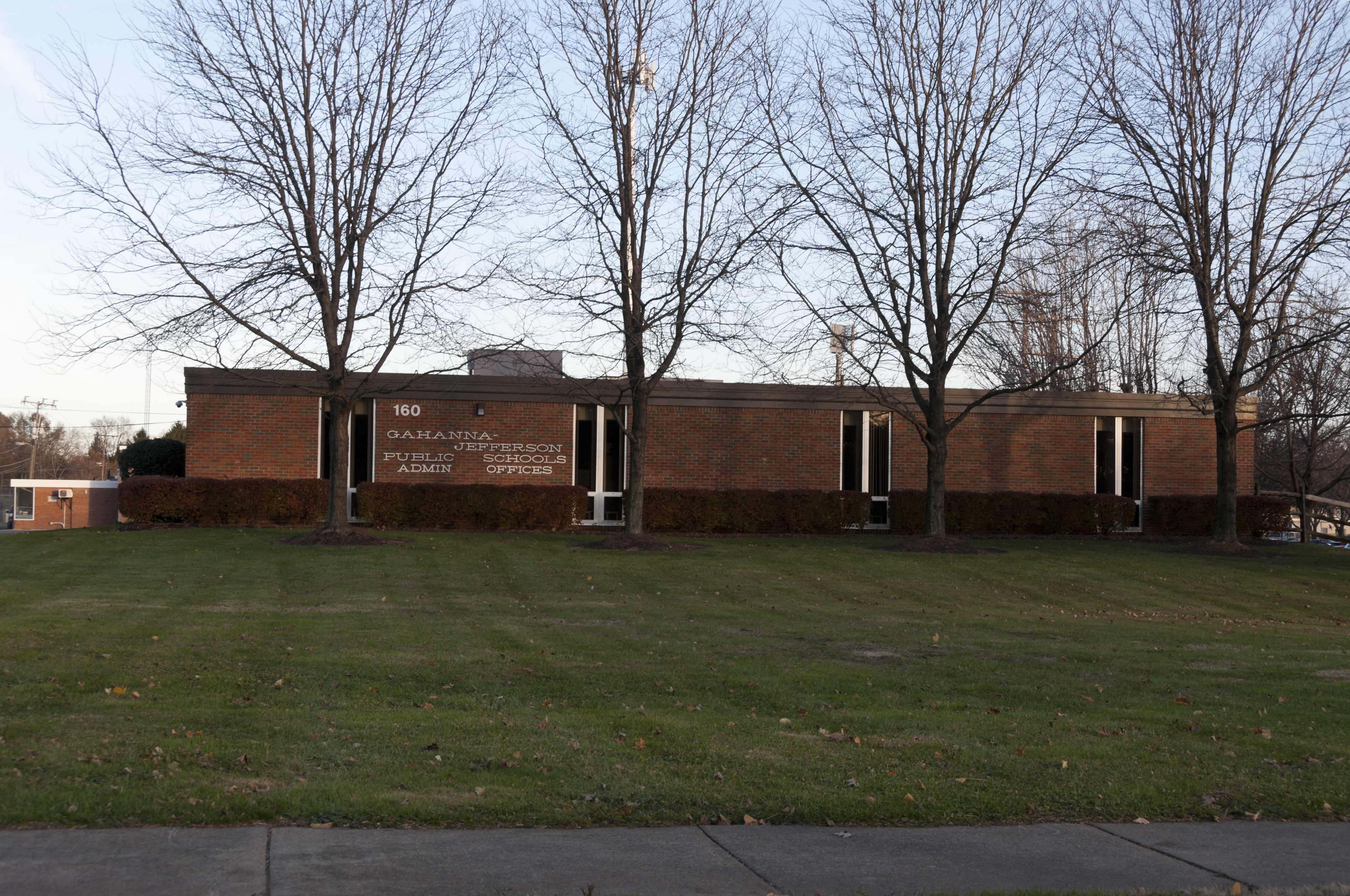 Gahanna-Jefferson Public School District Administration Offices taken from Hamilton Rd. (from the west). The district includes the city of Gahanna and parts of Jefferson and Mifflin Township servicing about 35,000 residents including approximately 7,300 students from kindergarten through grade 12.